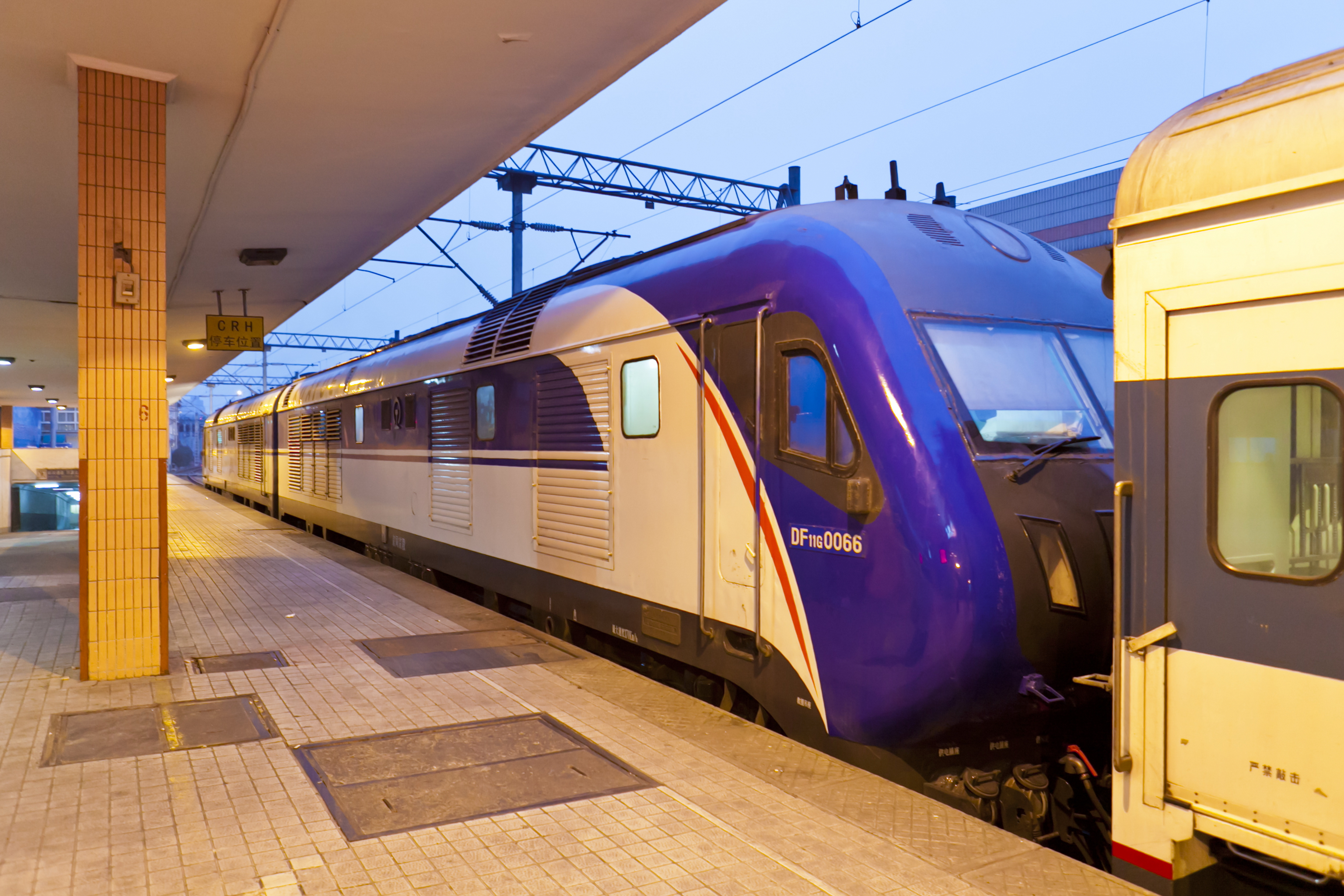 DF11G locomotive at Hangzhou Station